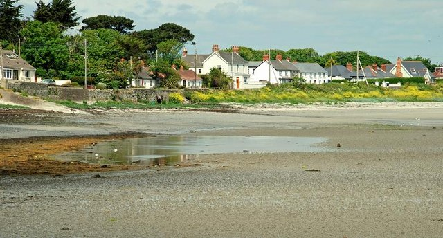 Cloughey Bay Cloughey (once “Cloghy”) Bay showing the “ribbon” development for which the area has become known.